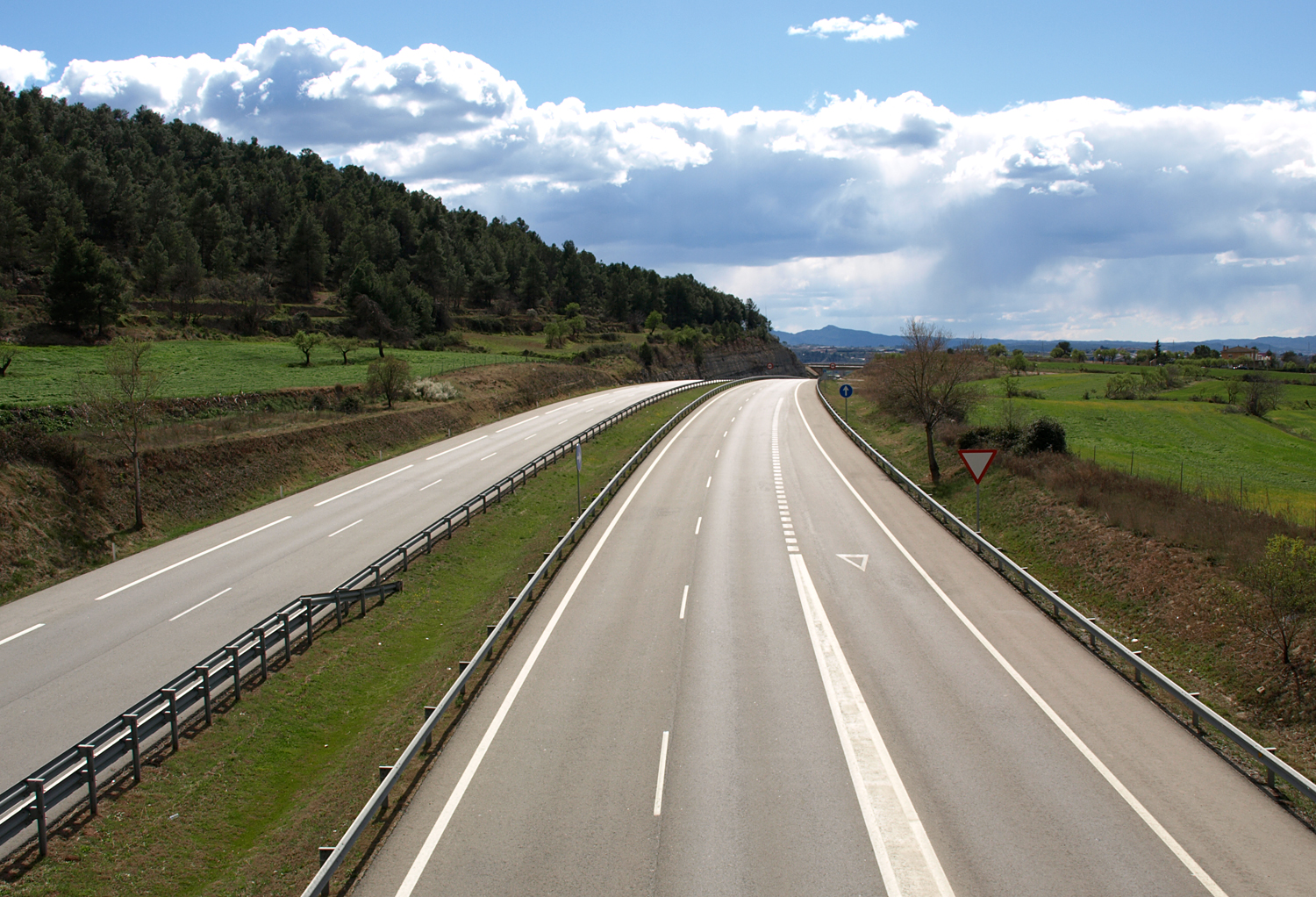 C-16 (highway) - Sant Fruitós (Manresa)